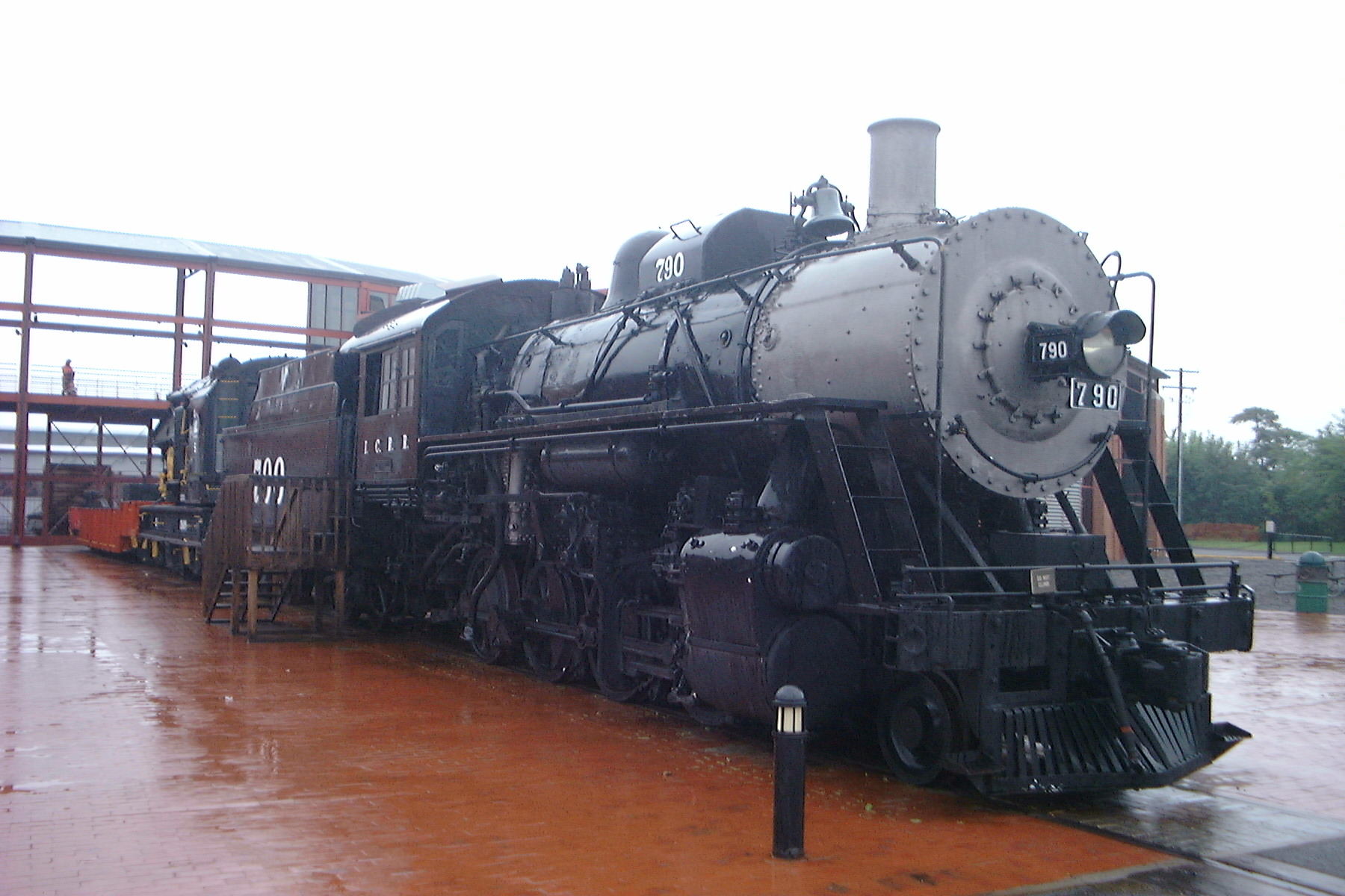 Steamtown,Scranton,PA